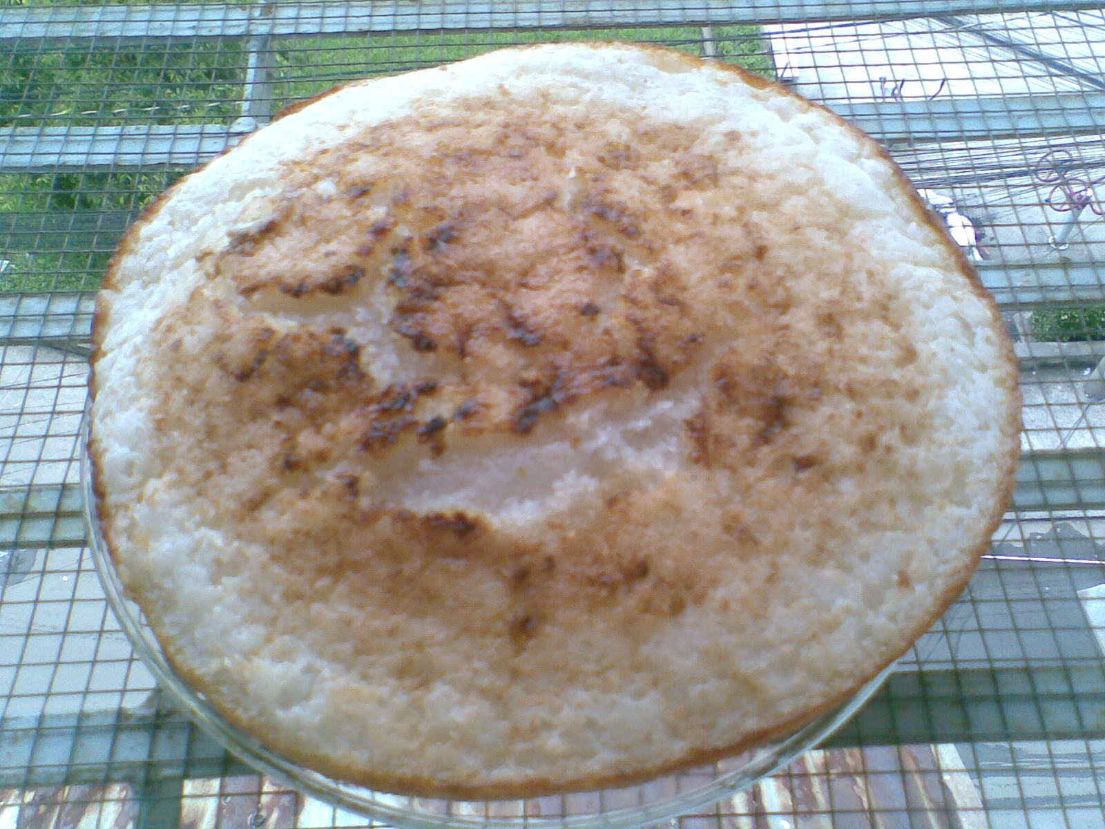 a big "banh bo nuong"